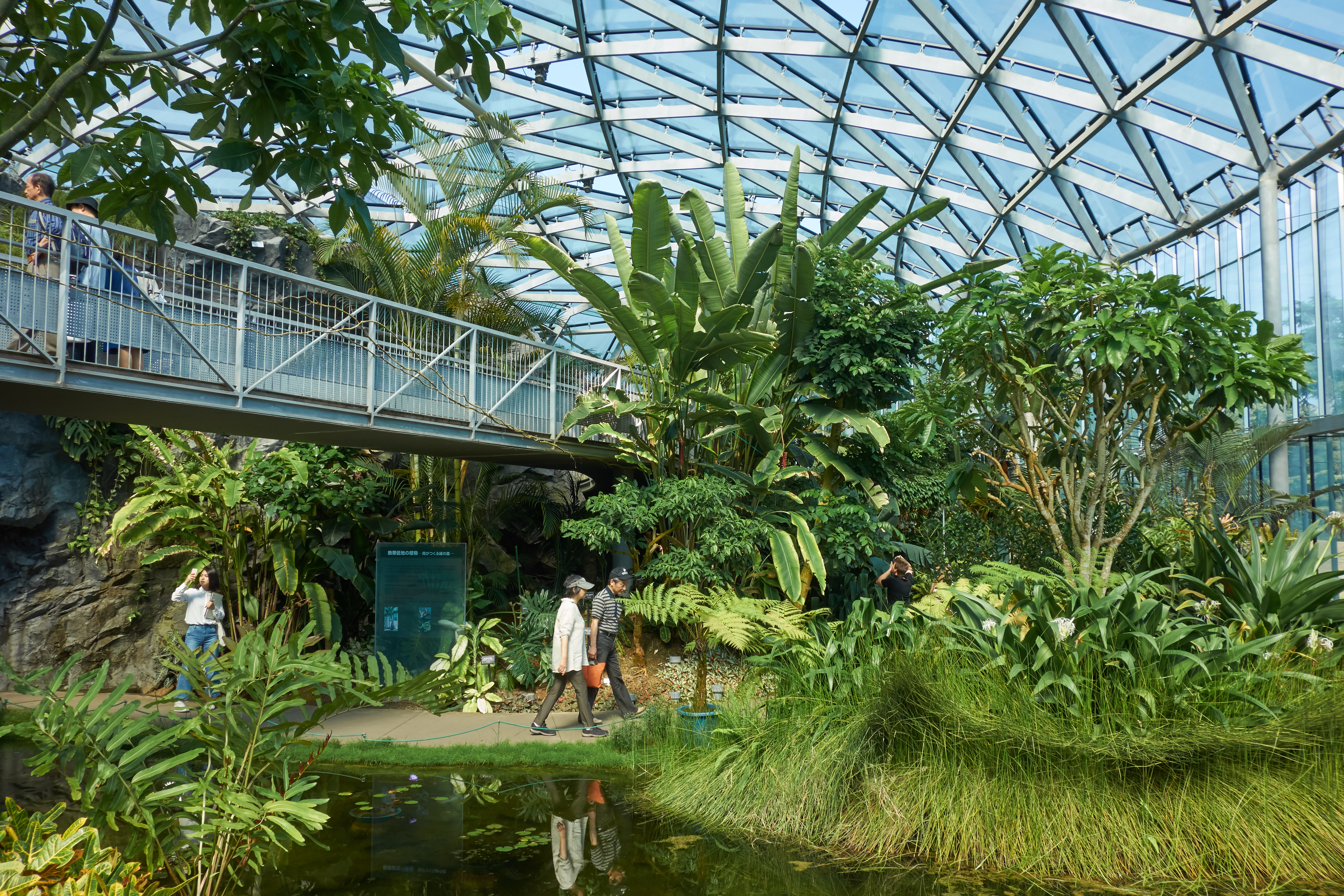 Shinjuku Gyoen Park Greenhouse, May 2017